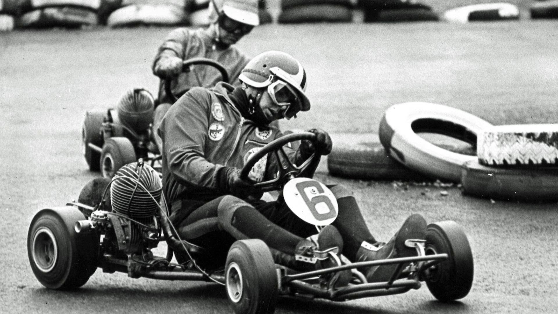 Photograph of the Finnish driver Keke Rosberg at Bemböle track (Formula K) in Espoo. Behind him, Kenth Engström of Sweden.